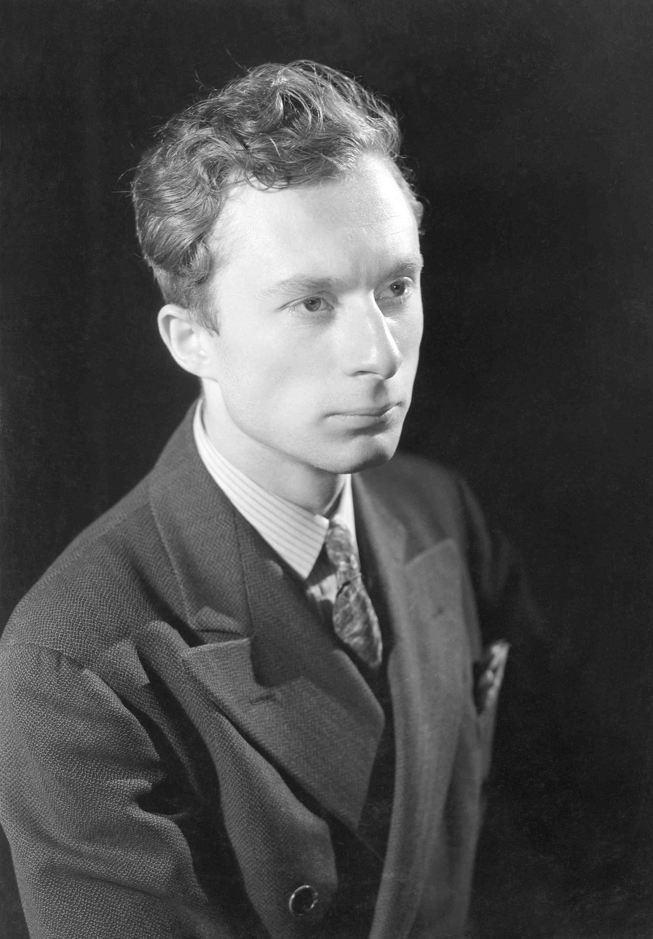 Cast photograph of Norman Lloyd in the Federal Theatre Project production of Power, a Living Newspaper play at the Ritz Theatre (February–August 1937)